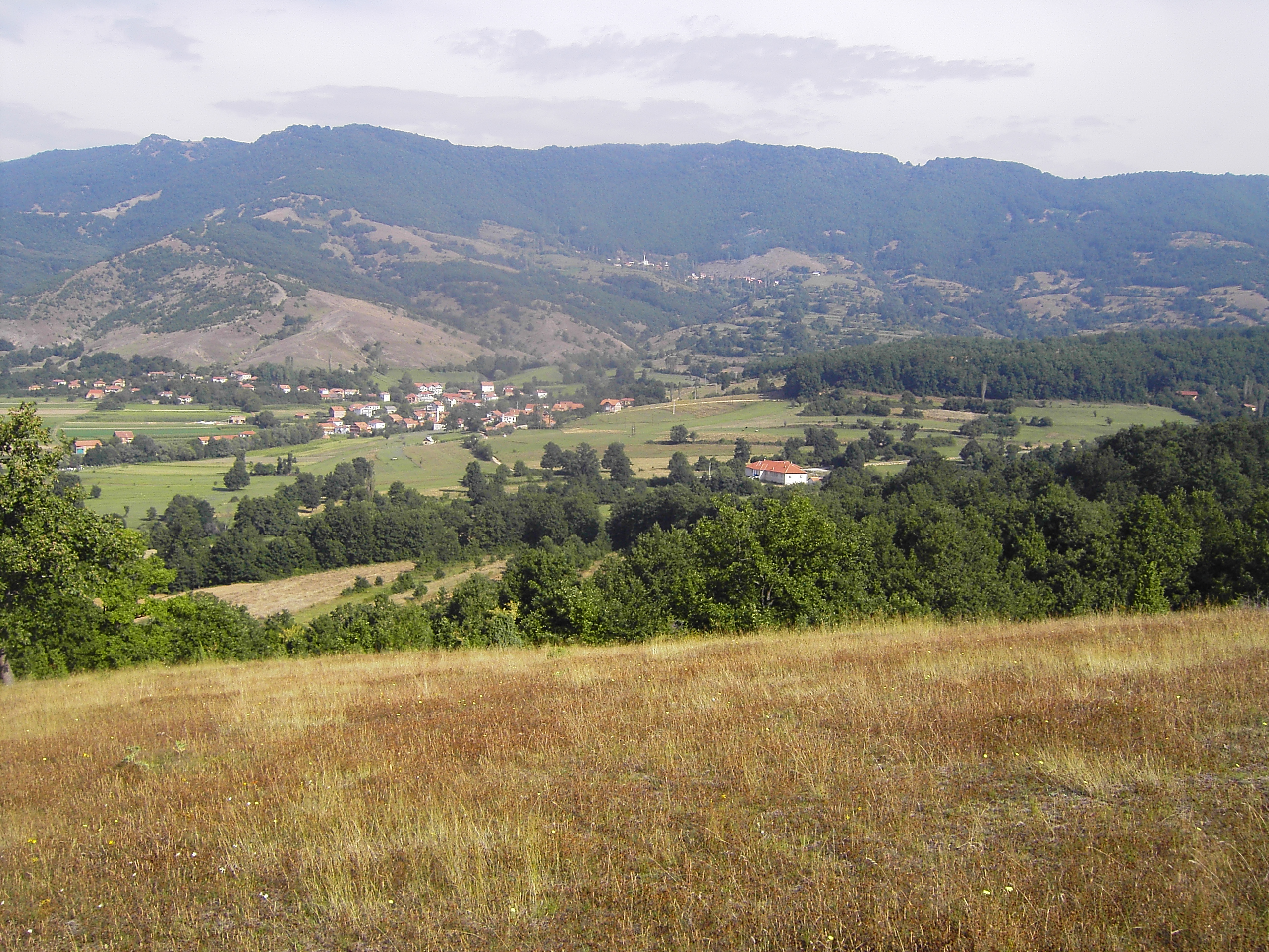 Jagol, MAcedonia